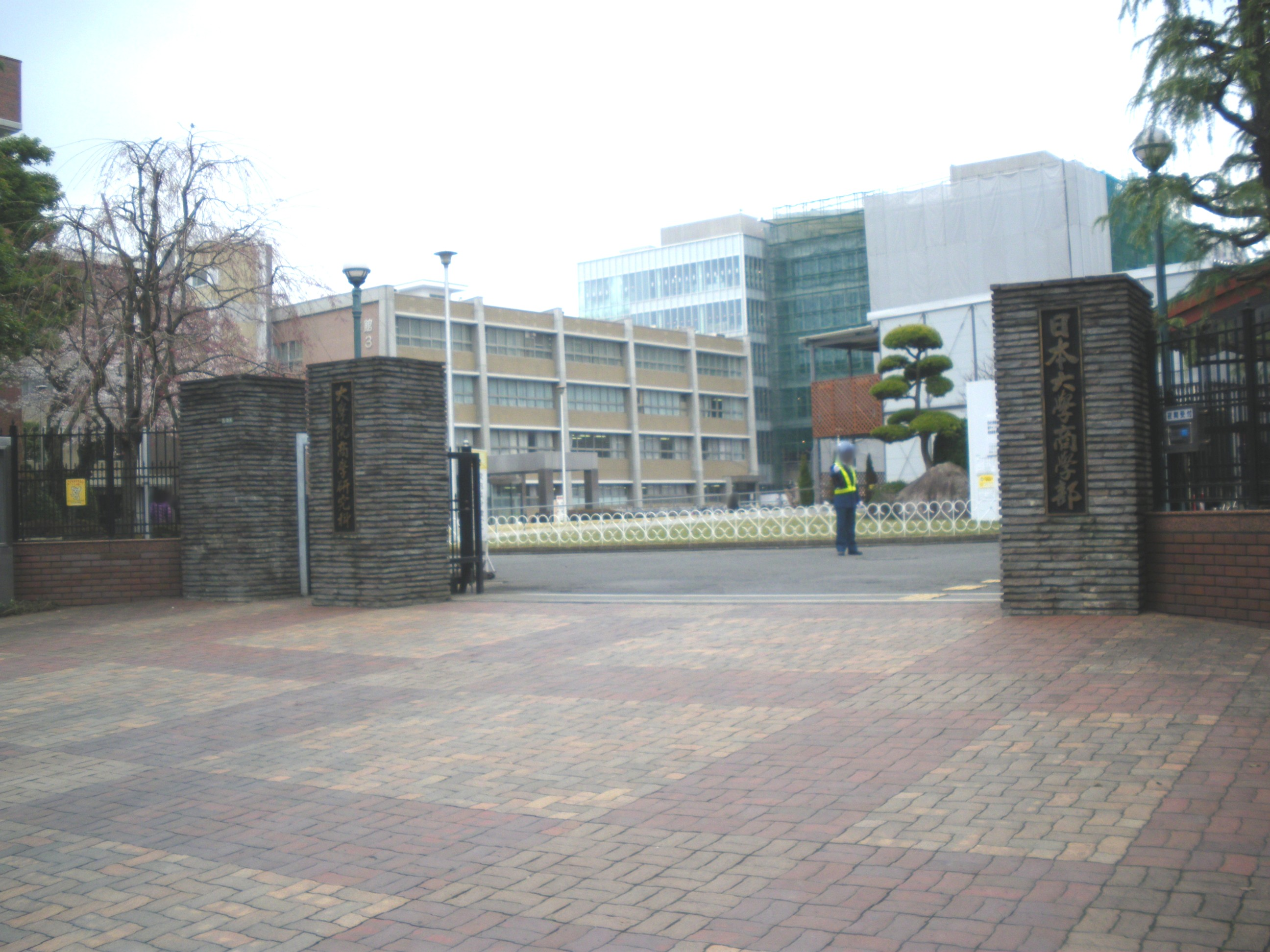 Nihon_University school of commerce(okura,Setagaya,Tokyo)